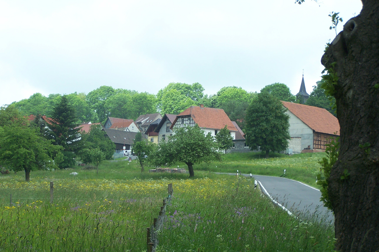 A view of Andenhausen.